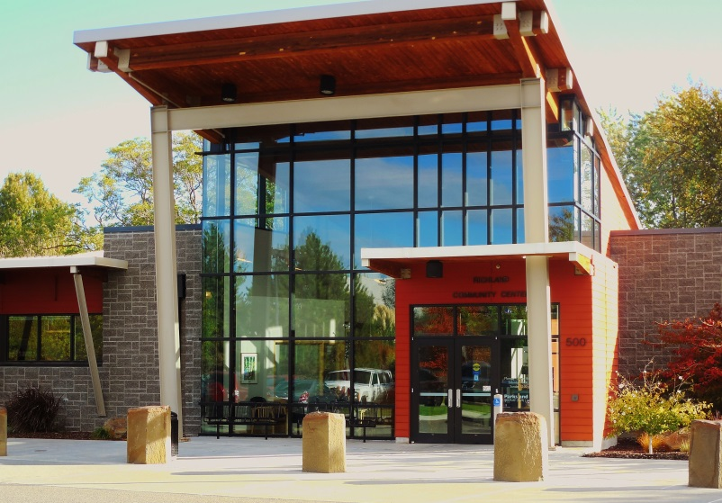 The west view of the Richland Community Center